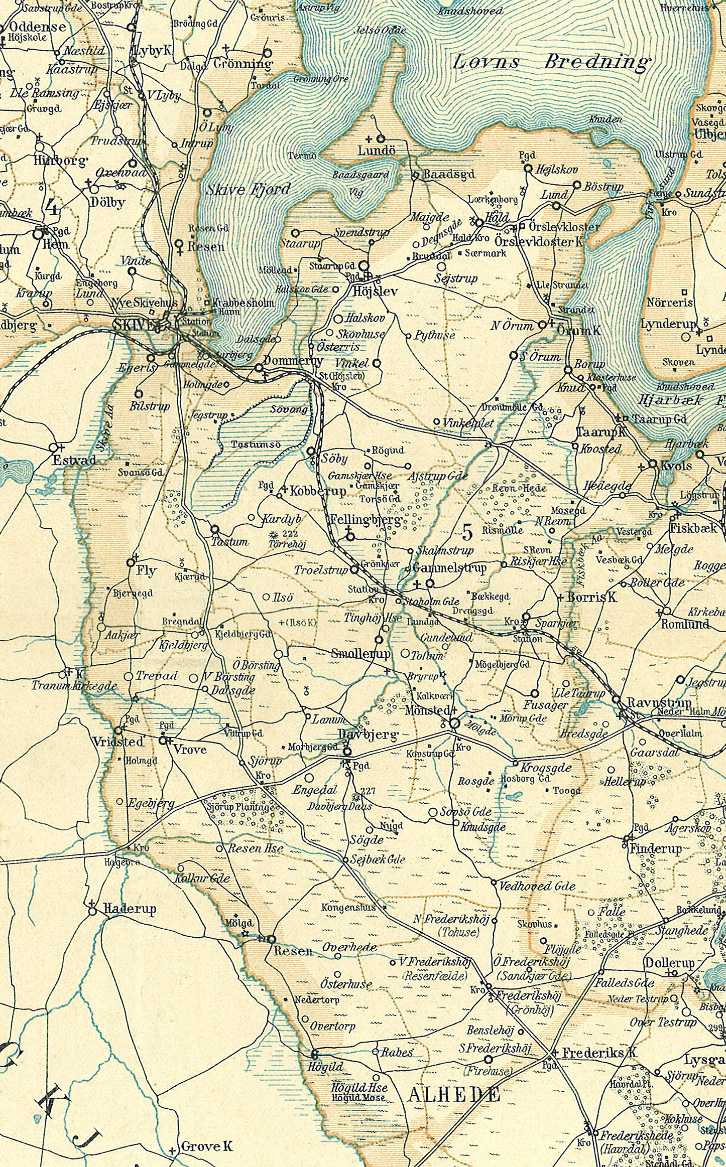 Map of Fjends Herred in the northwestern part of Viborg County in Denmark